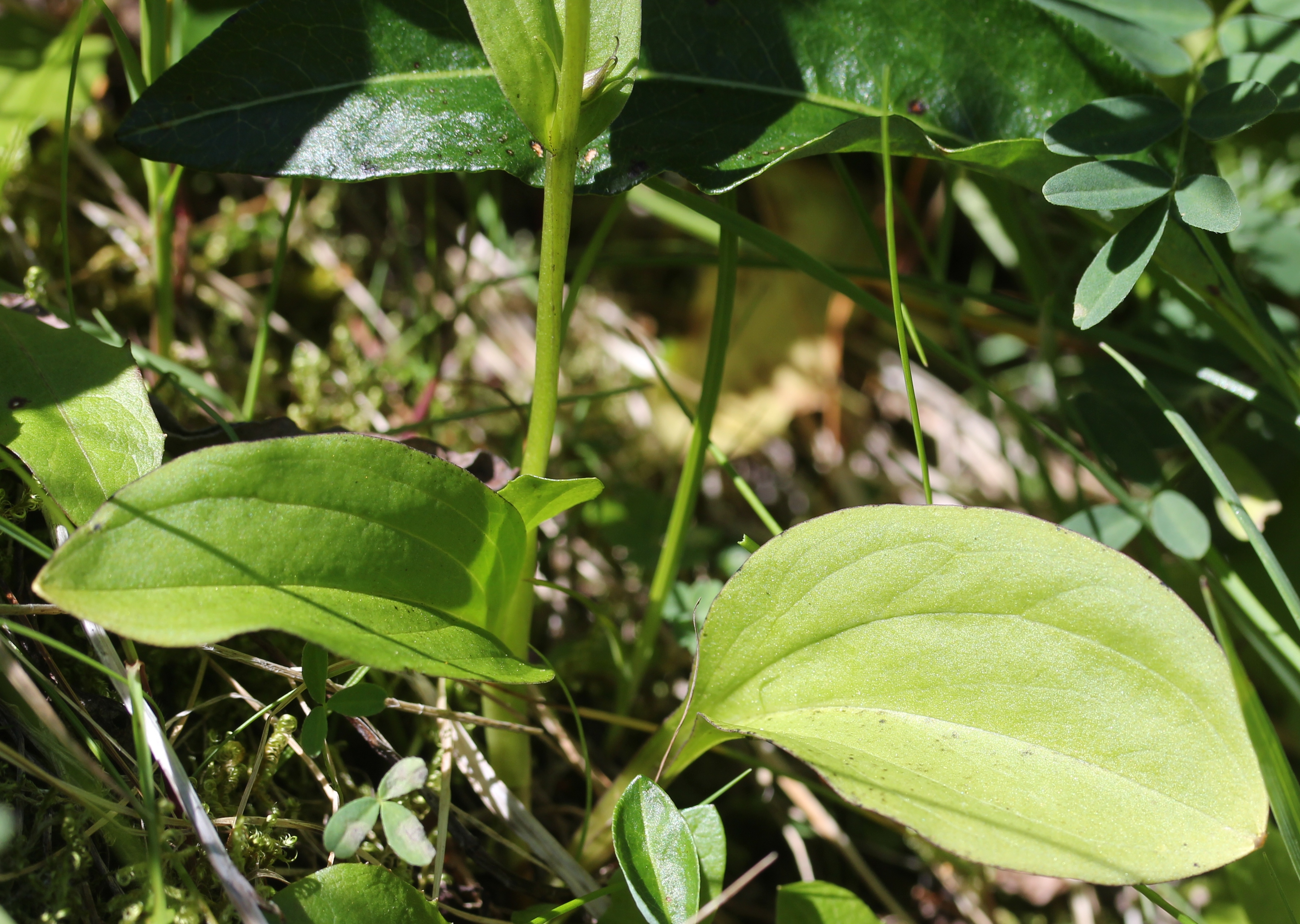 Swertia perennis subsp. cuspidata in Mount Shiroumayari, Hakuba, Nagano prefecture, Japan.